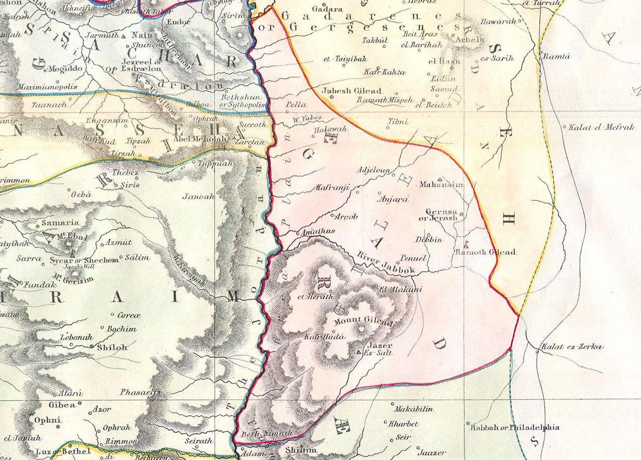 This beautiful hand colored map is a steel plate engraving of Israel / Palestine or the Holy Land. Depicts the region as it would have been during the period of the Twelve Tribes of Israel. There are numerous notations referencing well, caravan routes and Biblical locations. Dated “Liverpool, Published by George Philip and Sons 1852”.